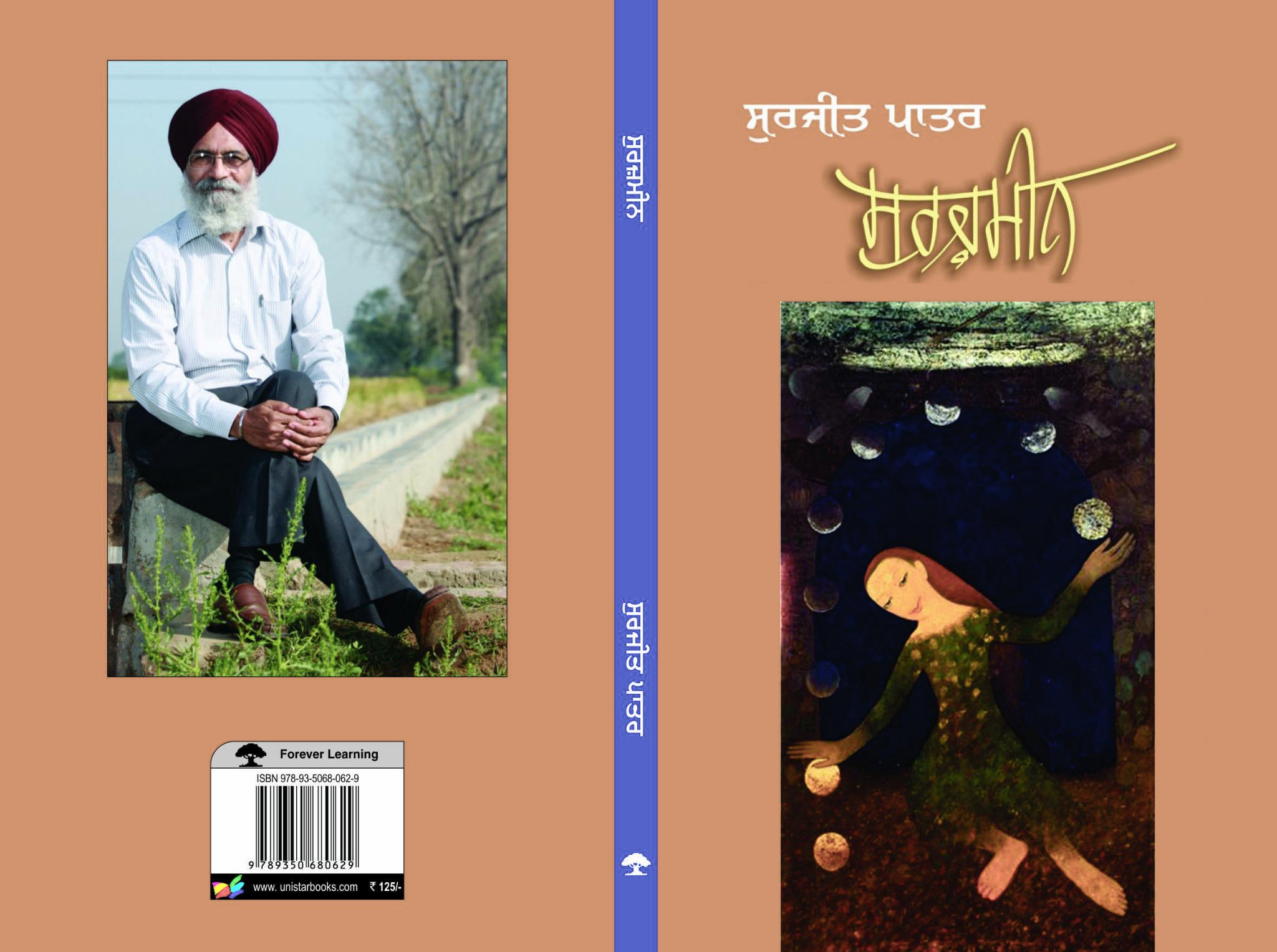 It is a collection of Ghazals by renowned Punjabi Poet Surjit Patar.